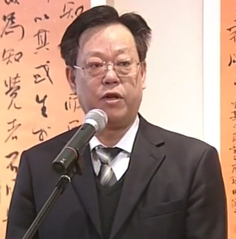 Zhang Xiyun, Chinese diplomat, Ambassador of China PR in Ukraine